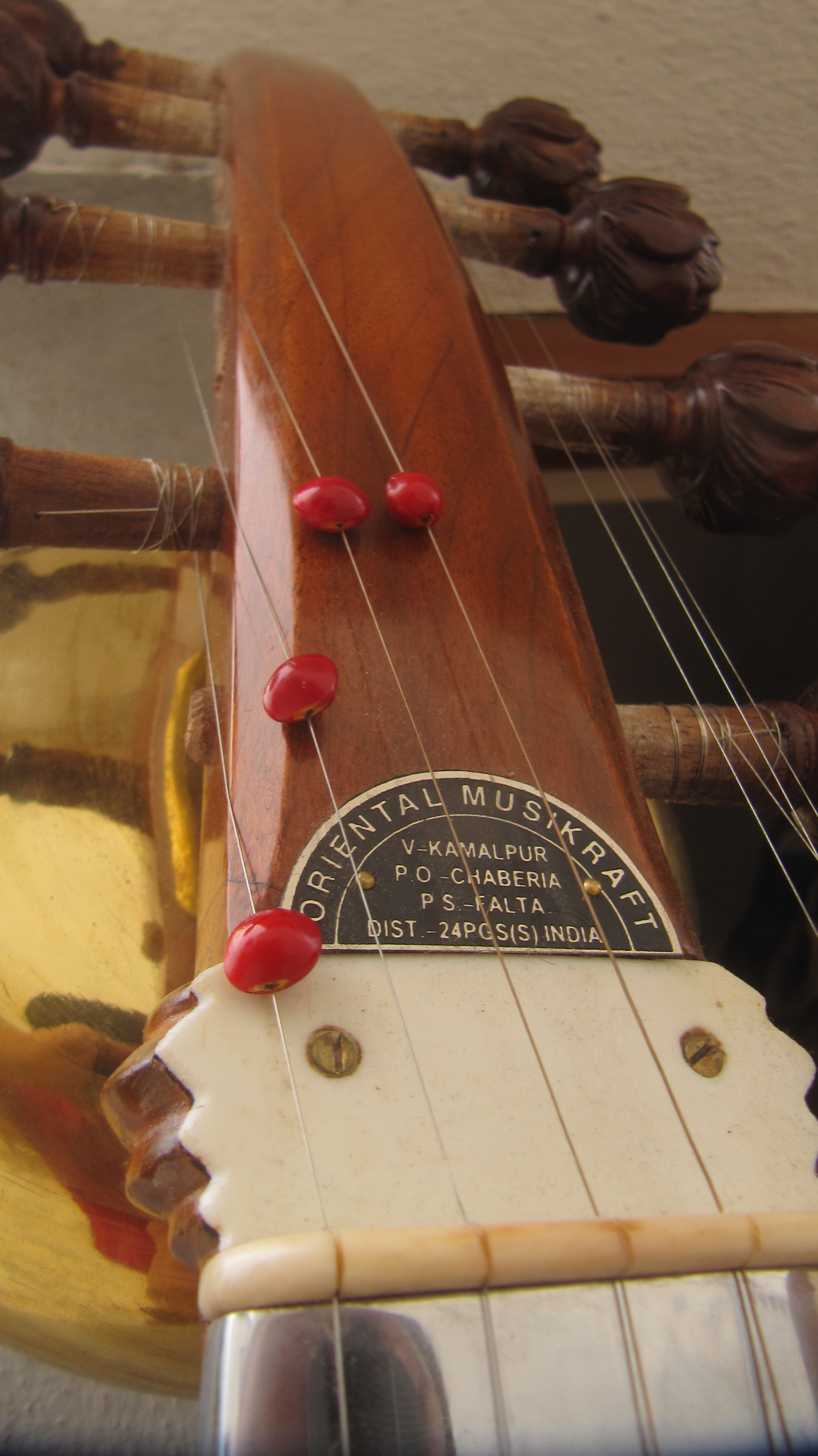 Sarod Micro tuners made using Manjaadikuru - a red seed popularly found in south India.